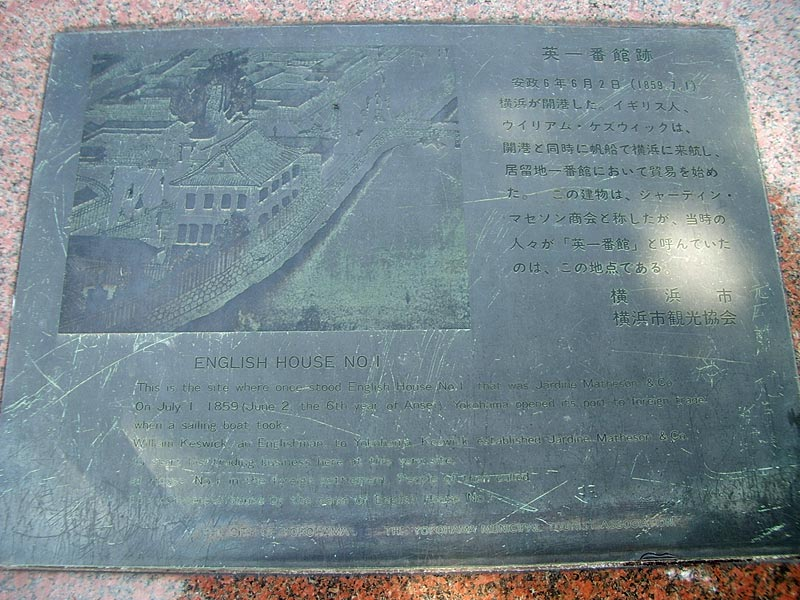 photo